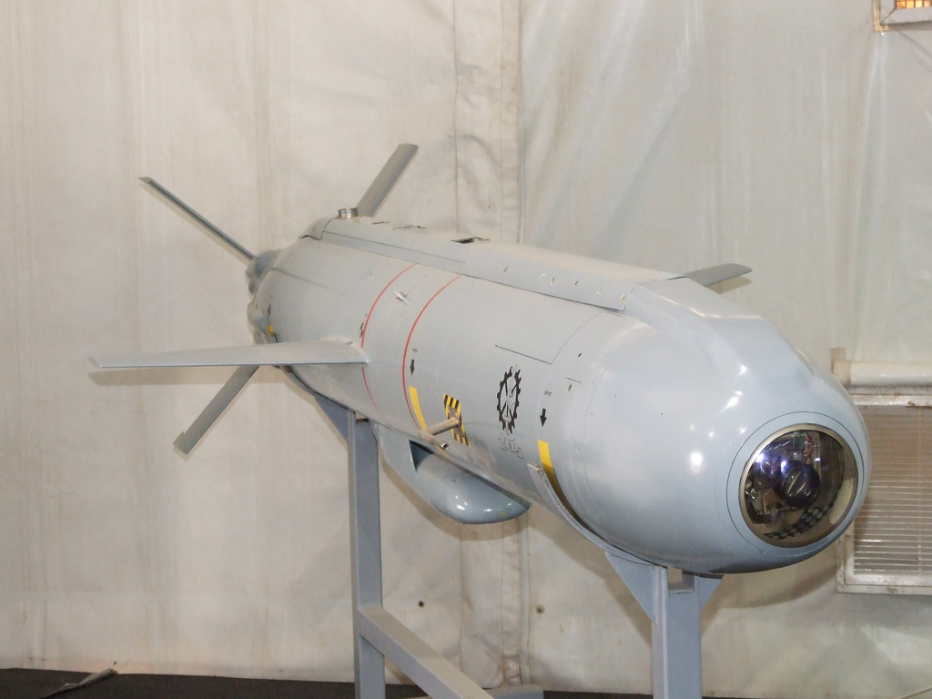 Delila missile